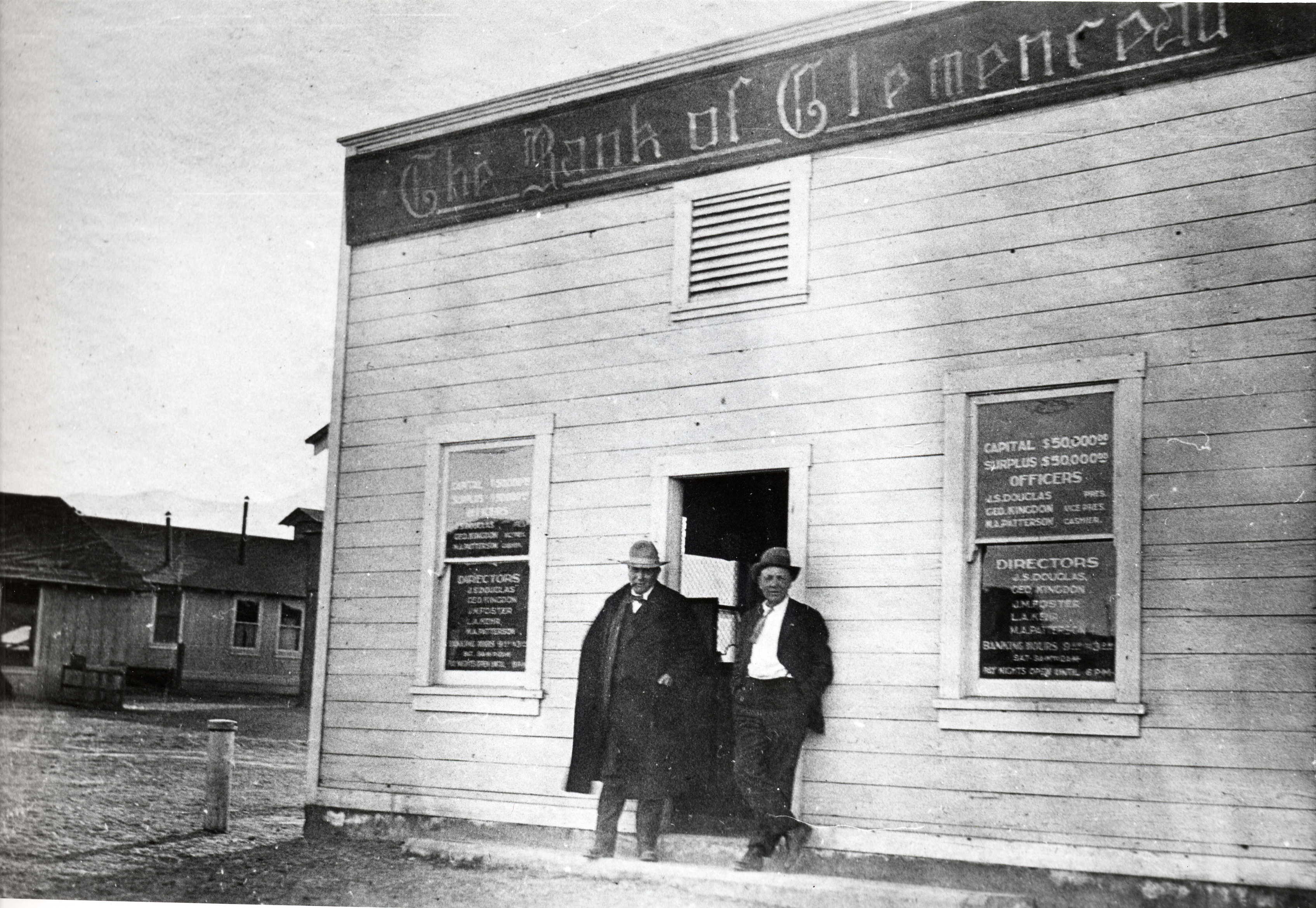 The Bank of Clemenceau (1920) — in Clemenceau, (present day Cottonwood), Arizona A company town founded 1918, with copper mining smelter for ore from the Little Daisy Mine in Jerome. Photo published circa 1920. Source: Clemenceau Heritage Museum.